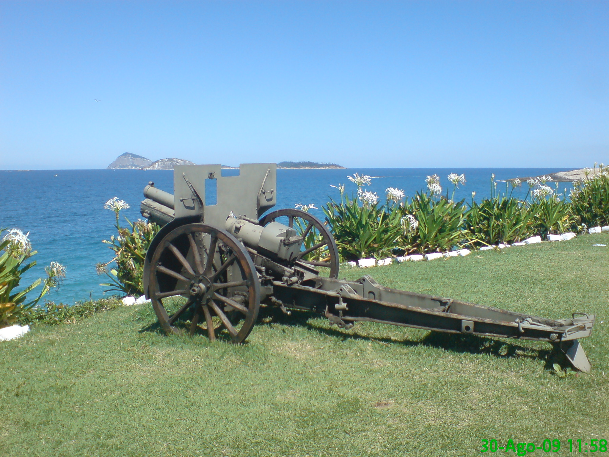 In 1923 the Brazilian Army ordered several Schneider Model 1919 75mm Mountains guns that were delivered in 1925. At least 3 of them are now on display at Forte de Copacabana Museum in Rio de Janeiro, Brazil.